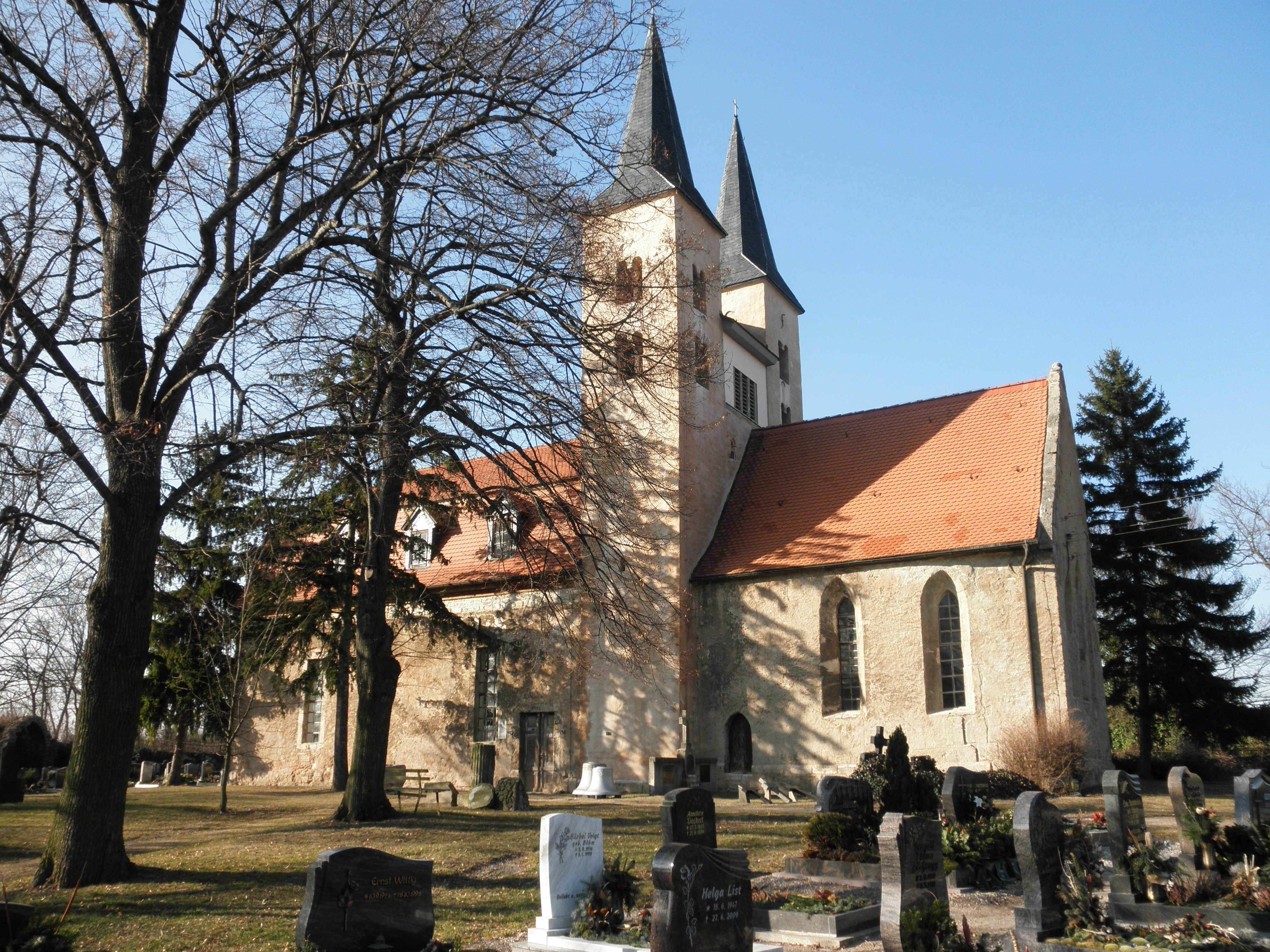 Church in Gangloffsömmern in Thuringia